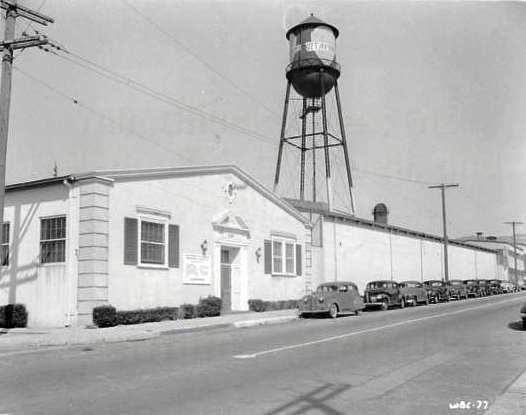 Leon Schlesinger Productions studio, early 1940s